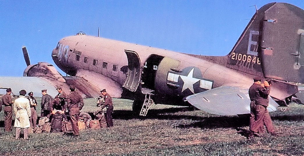 47th Troop Carrier Squadron C-47A-70-DL Skytrain 42-100646, July 1945. Aircraft sold to to Finnair 26/10/46 as OH-LCB; to Finnish AF 1963 as DO-7. Sold 1983 to Dutch Dakota Association as PH-DDA. Crashed into North Sea Sep 25, 1996 with loss of all six crew and 26 passengers.